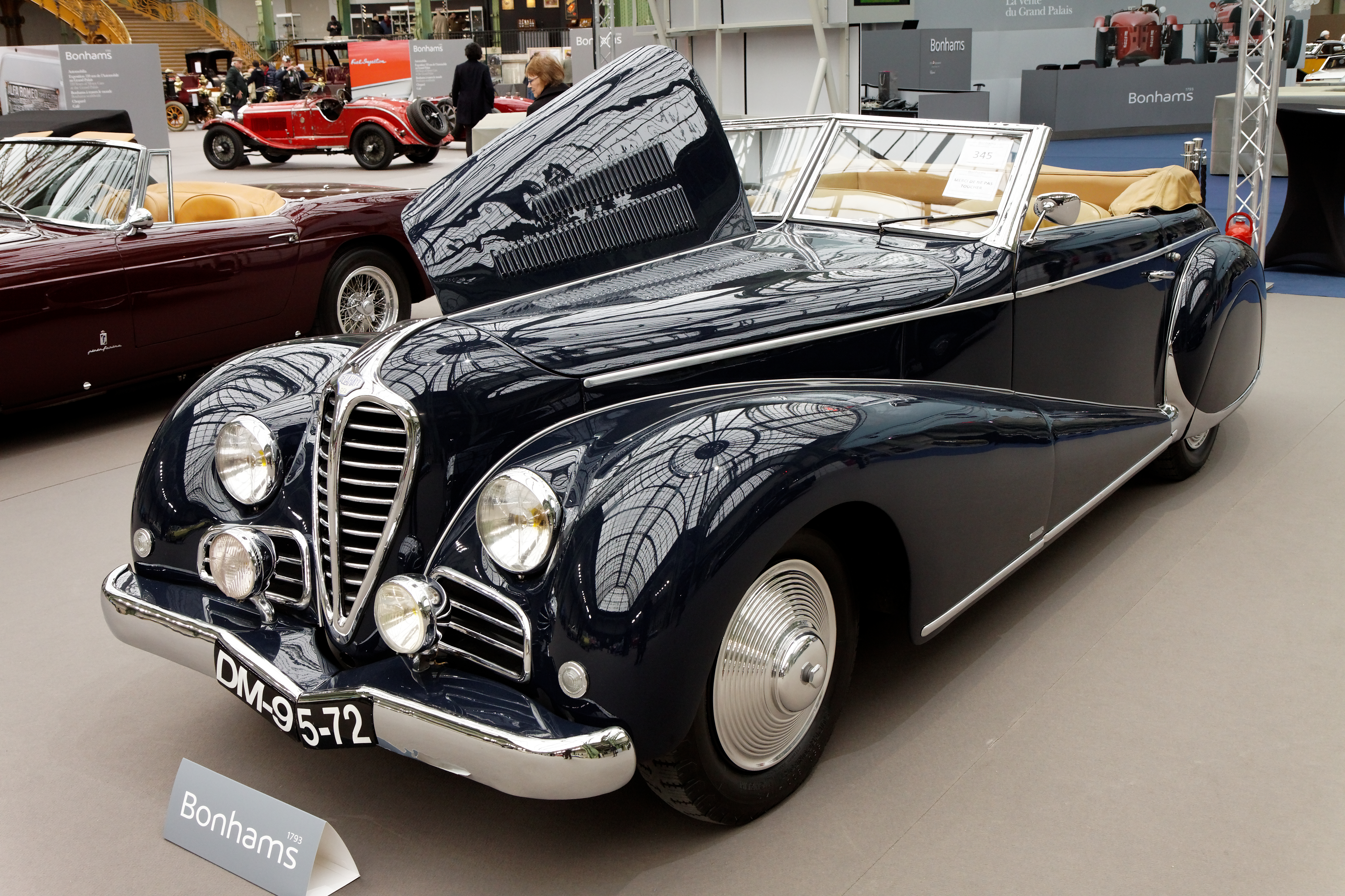 1948 (or 1949) Delahaye 135M Cabriolet with Antem bodywork, chassis and engine nos 800980 The making of this document was supported by Wikimédia France. (Submit your project!)